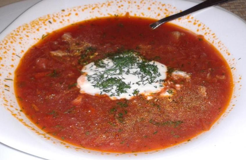 Soljanka soup, in Kaliningrad